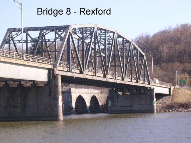 Route 146 bridge over the Erie Canal / Mohawk River